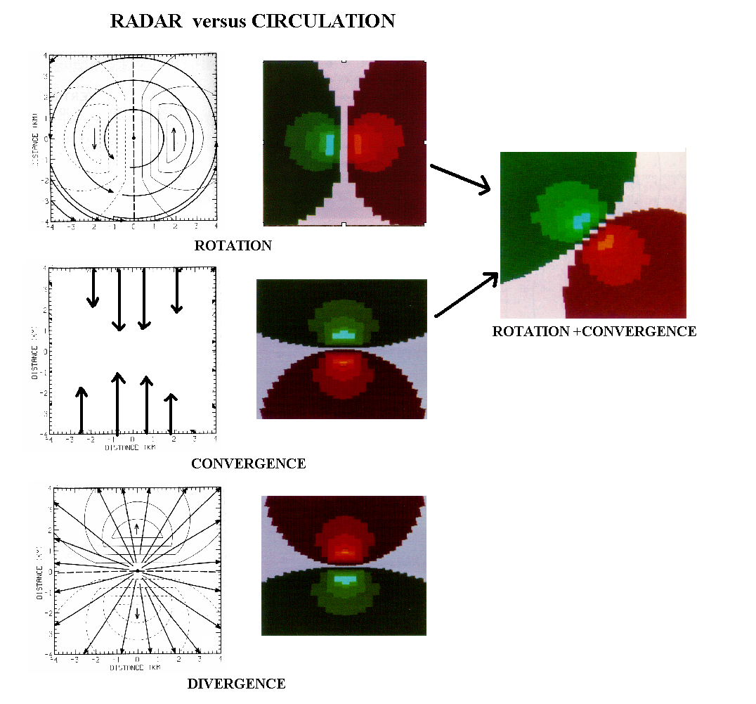 How a Doppler radar would see three types of mesoscale circulations: rotaton, convergence and divergence. On the left, the velocity vectors in those circulations and on the right the radial component to the radar (at the bottom) that is perceived (blue toward, red away). A mesocyclone is usually a mix of rotation and convergence into the updraft so it would be seen as the doublet of the extreme right. Norice the axis of the zero velocity line.